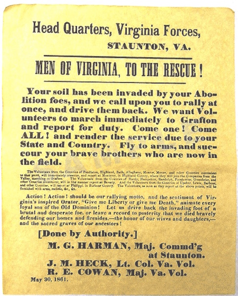 Men of Virginia to the Rescue